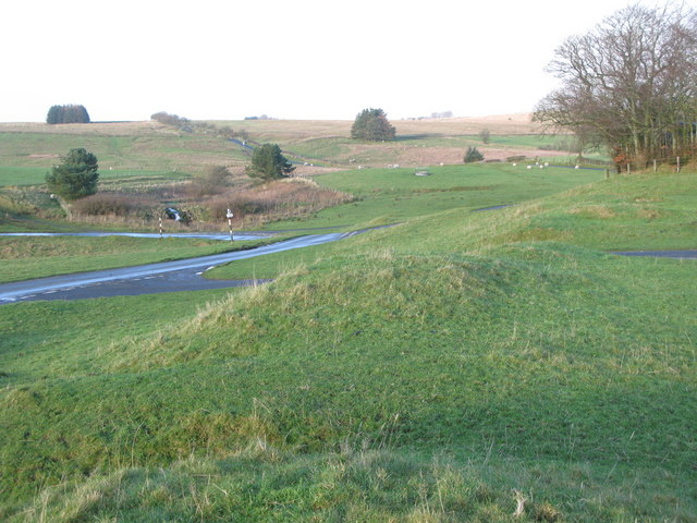 Ramparts of the Roman fort at Bewcastle, near to Bewcastle, Cumbria, Great Britain.